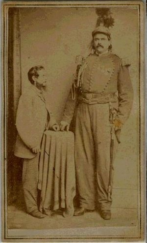 Sideshow attraction Ruth Goshen